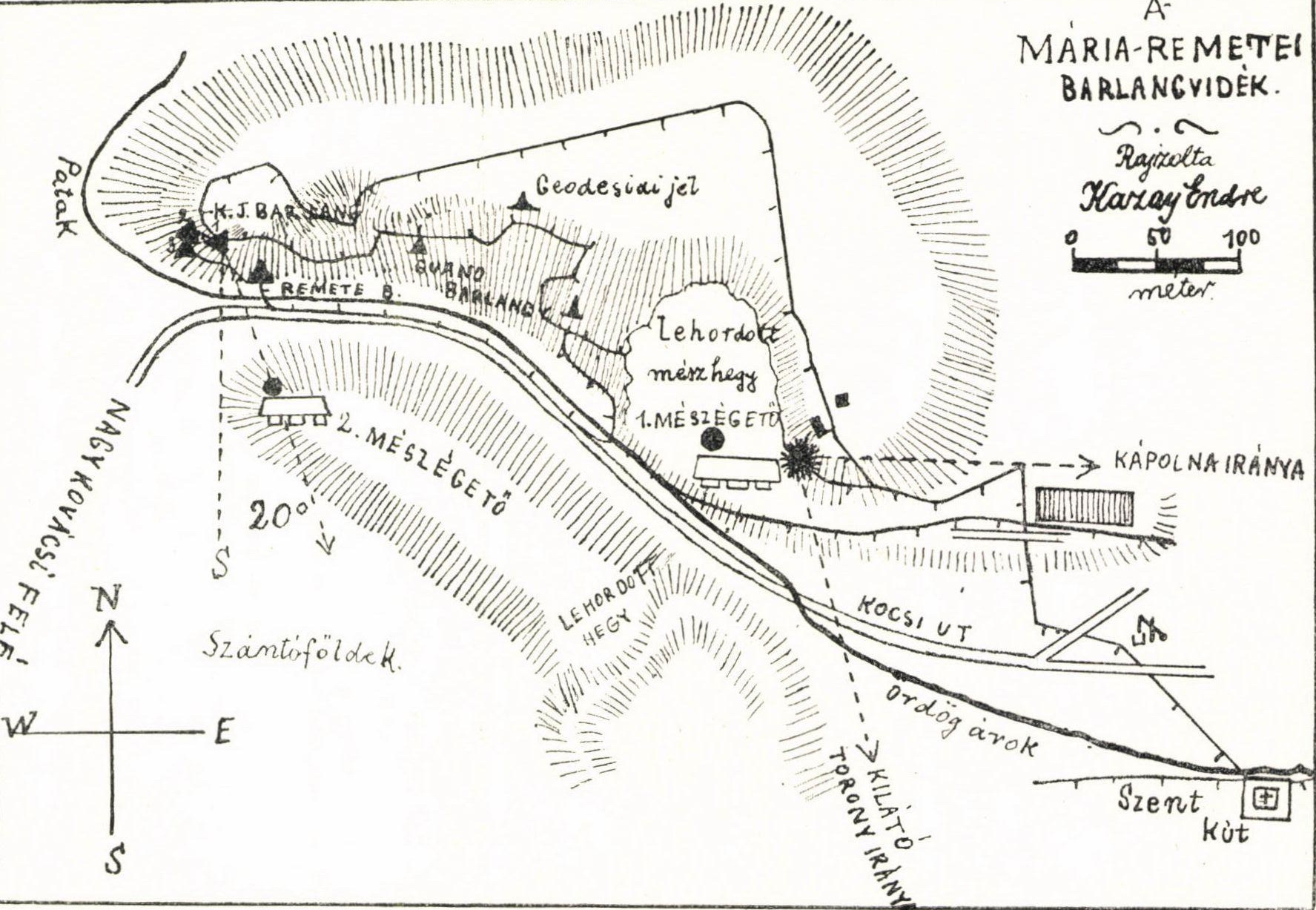 Drawing of Remete Valley by Endre Kazay.